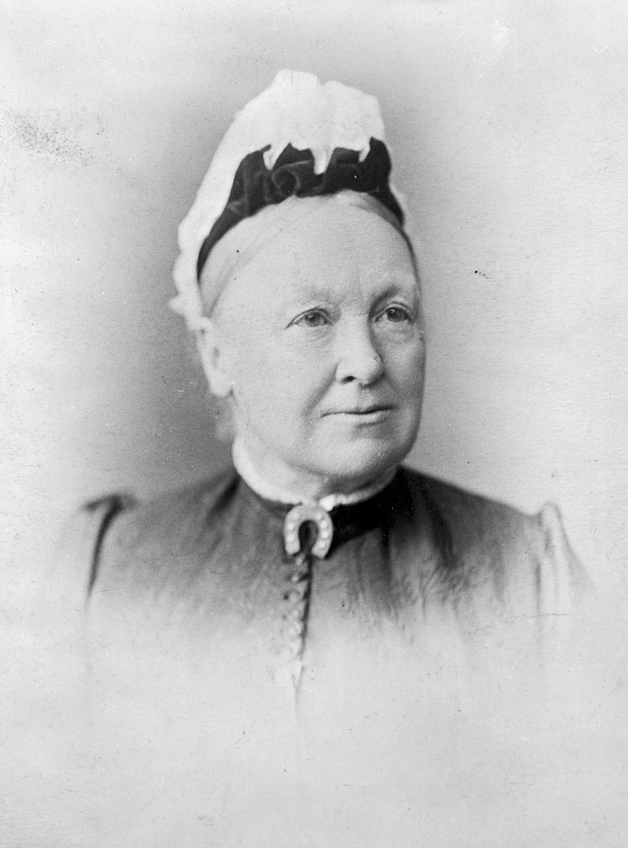 Portrait of Catherine Helen Spence in the 1890s